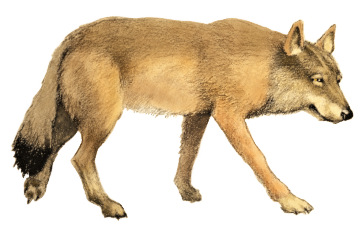 Wolf (Canis lupus) one of the predators on the icy tundra and the mammoth steppe. Later wolves adapted to the changing climatological conditions. They lived in Brabant until the Late Medieval period (After N.ZIJDENBOS, MEC. Eindhoven). Colour based on coloration of frozen Pleistocene wolf head found in Yakutia.